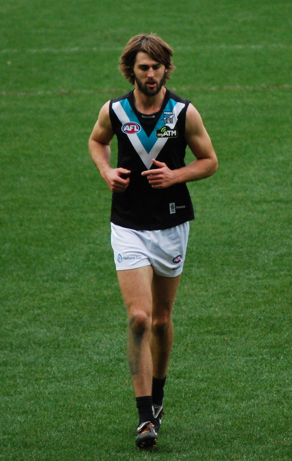 Justin Westhoff playing for Port Adelaide taken at the MCG playing against Hawthorn Hawks (Round 21, 2011)